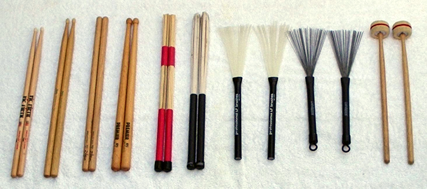 Drum Sticks, left to right: Vic Firth 7AN, Fibes 5B Heavy Rock, Zildjian Absolute Rock, Premier KP3, Livingstone 19 cane rutes, Vater AcouStick 7 cane nylon sheathed rutes, LP nylon brushes, Livingstone steel brushes, cartwheel mallets